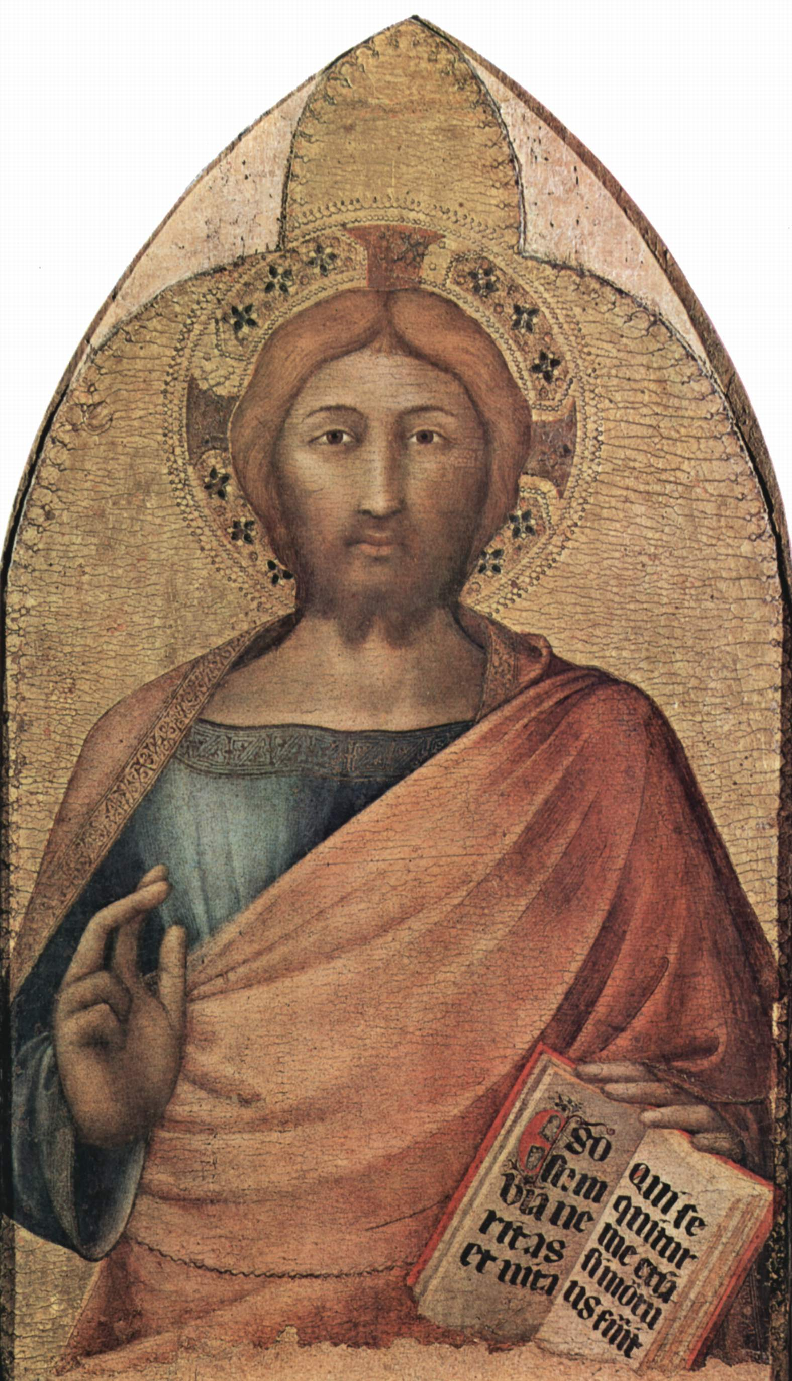 This panel, the apex of a dismembered altarpiece, was long believed to be by Simone Martini, but is now thought to be an early work of Lippo Vanni.